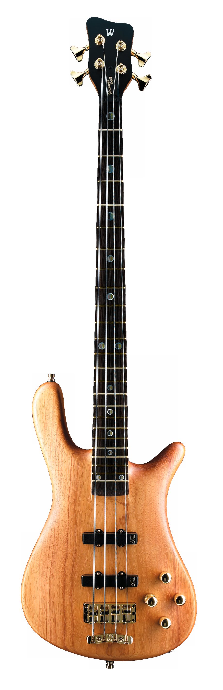 Warwick Streamer Stage II